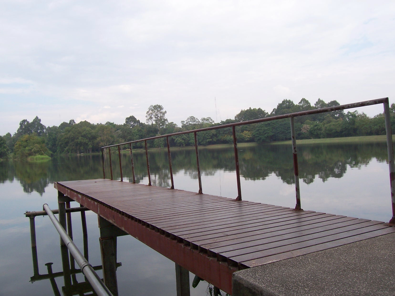 อ่างแก้ว (Arng Kaew) -- Chiang Mai University